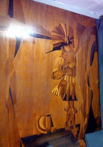 Wood marquetry by Szinte Gábor, in actors' café in the former National from 2000 Magyar Theatre, Budapest (1966)